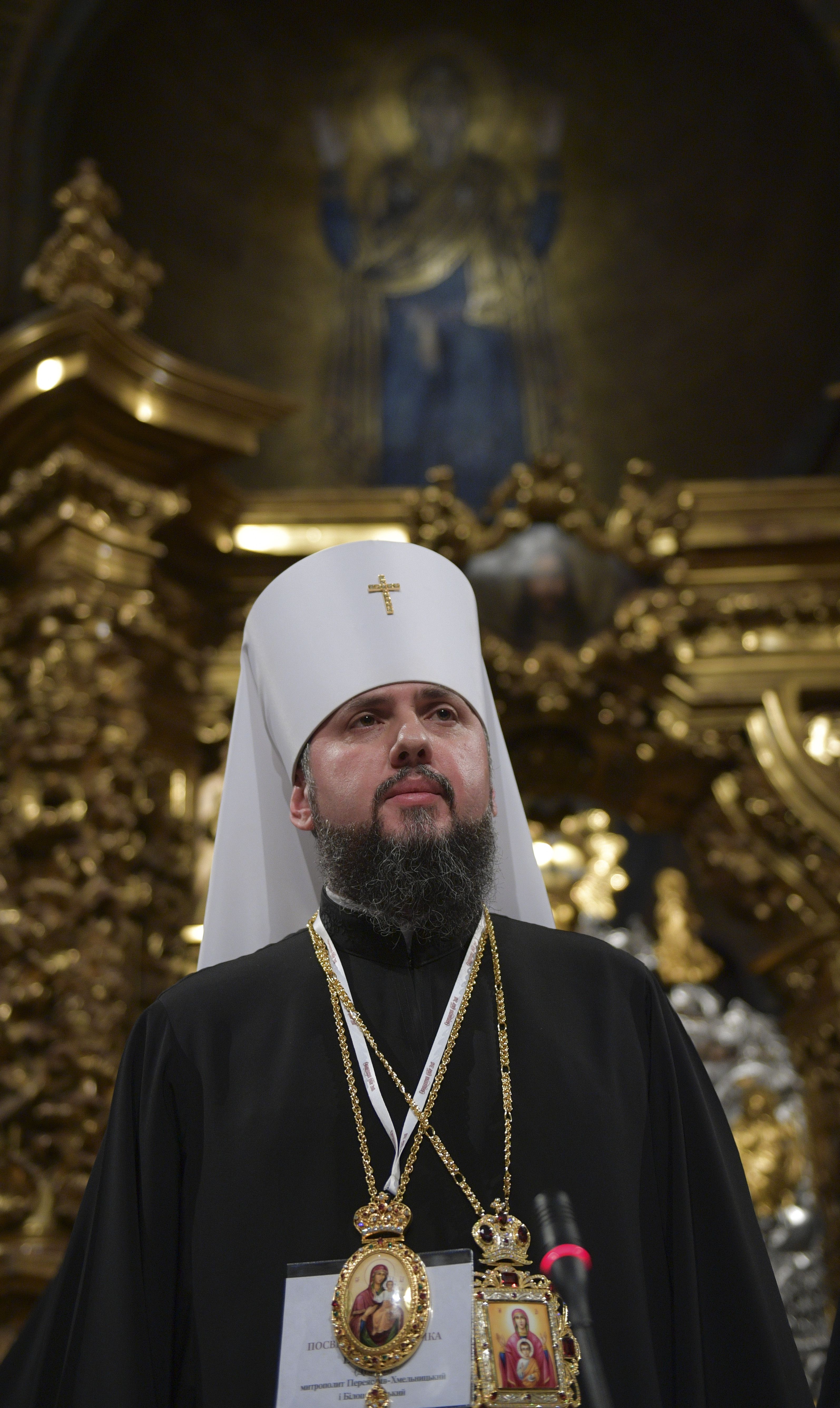 Unification council of Orthodox Church in Ukraine